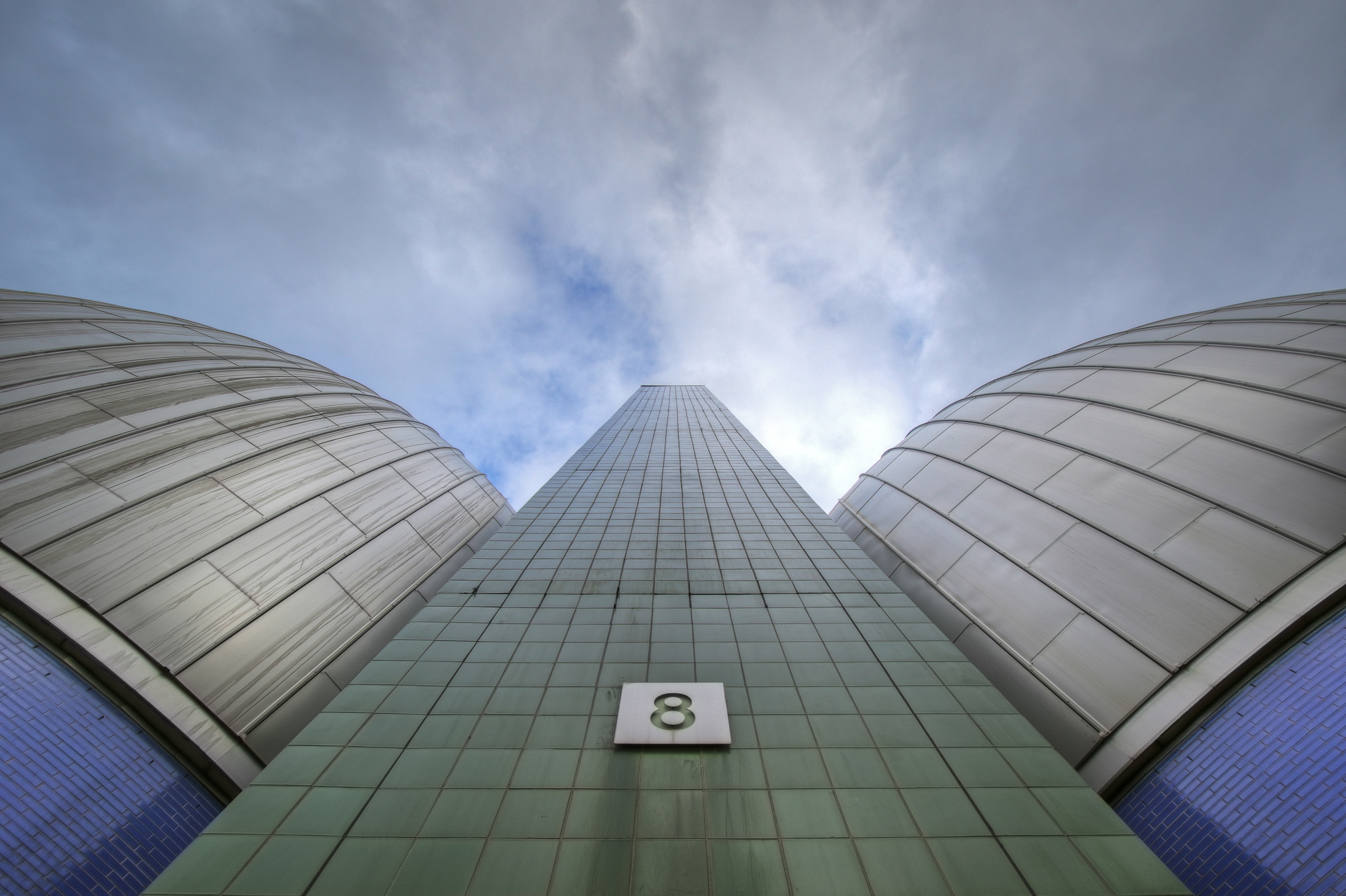 Site: Newtown Creek Wastewater Treatment Plant